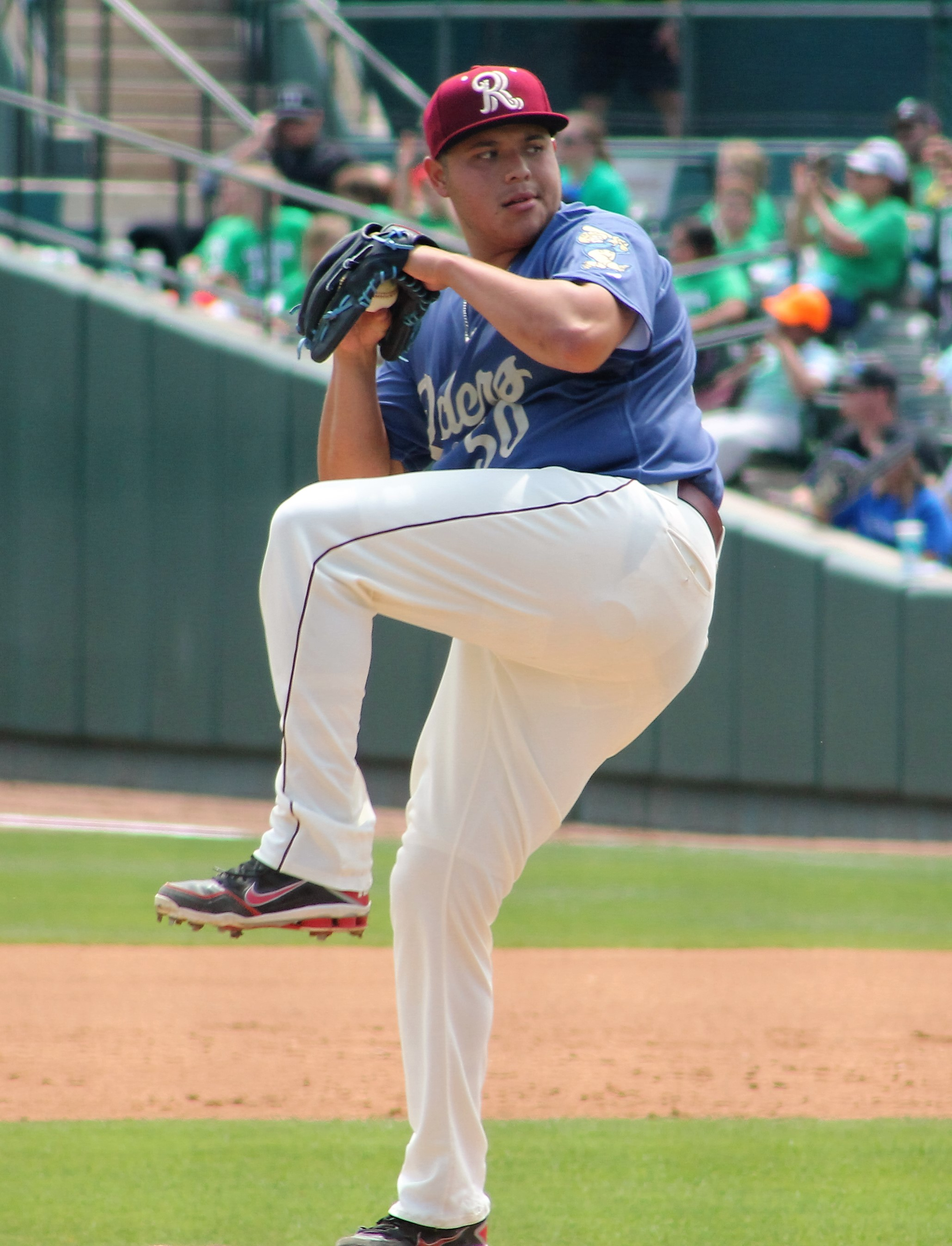 Professional baseball player Luis Ortiz pitches during a game in Frisco in May 2016.